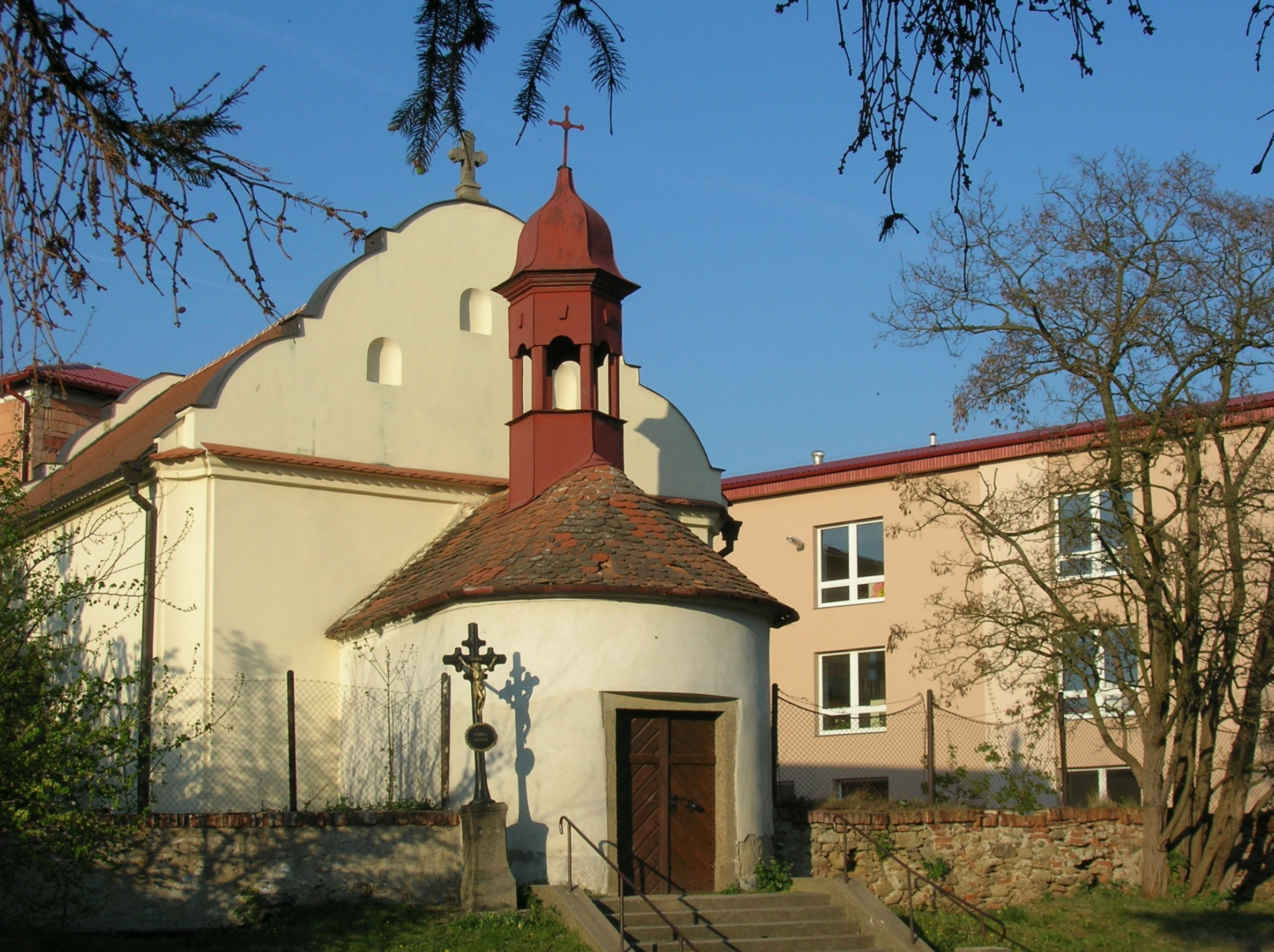 Jaroměřice nad Rokytnou. St. Joseph Chapel.